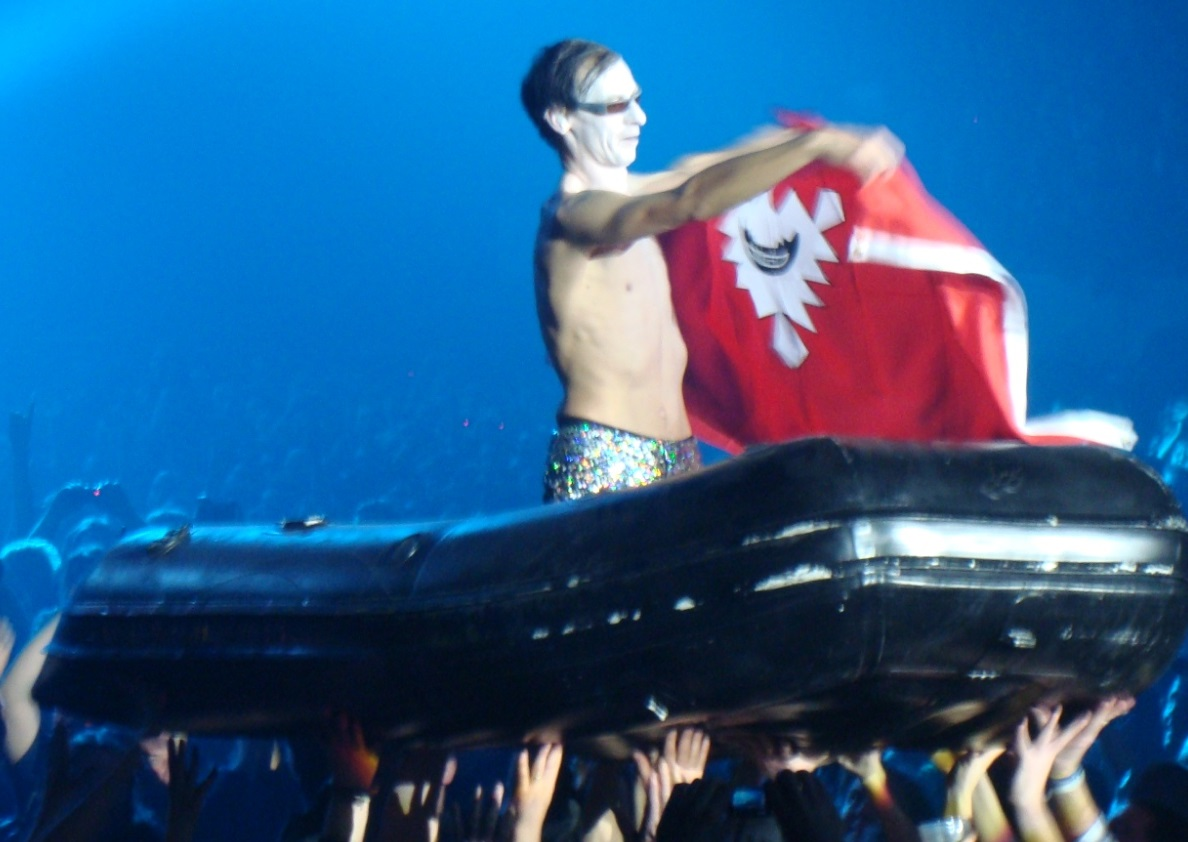 Flake in boat with flag, LIFAD tour 2010.